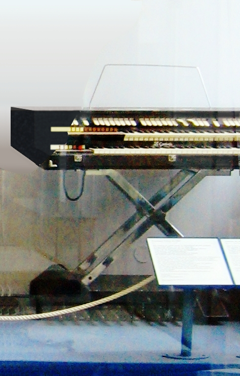 Unidentified Sisme electronic organ (1960 / 1980) @ Deutsches Museum References 1992.042: Synthesizer (electronic) by SISME ELECTRONIC ORGANS LIMITED (1960 / 1980). Carmentis . Bergium: Royal Museums of Art and History. "Numéro d'inventaire: 1992.042 / ... / Titre: Godwin / Créateur: SISME ELECTRONIC ORGANS LIMITED / ... / Datation: ca. 1975 / 1986 / ... / Depository: Musée des Instruments de Musique / Muziekinstrumentenmuseum / Owner: Musées Royaux d'Art et d'Histoire / Koninklijke Musea voor Kunst en Geschiedenis"